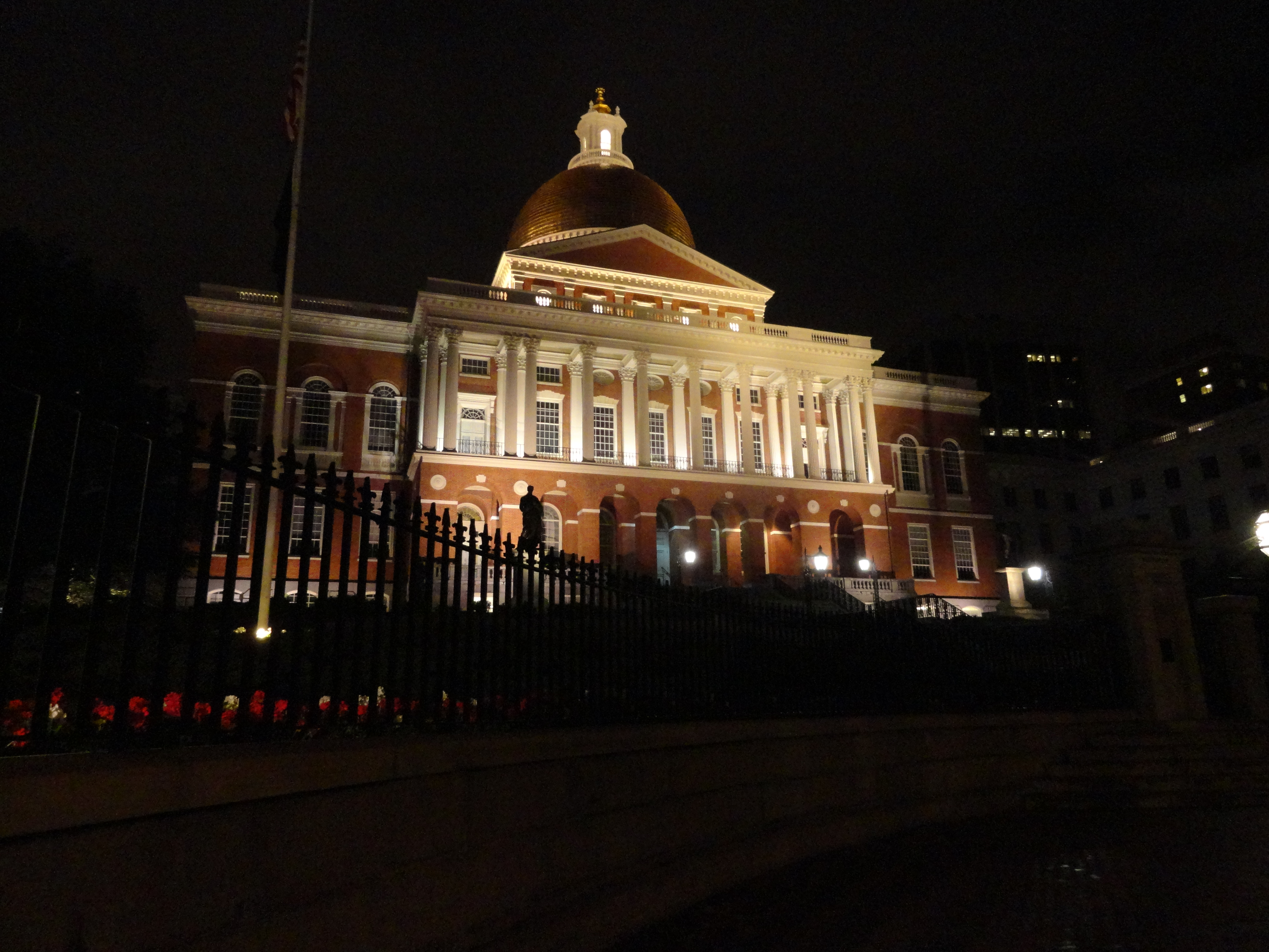 A view of the Massachusetts State House at night.